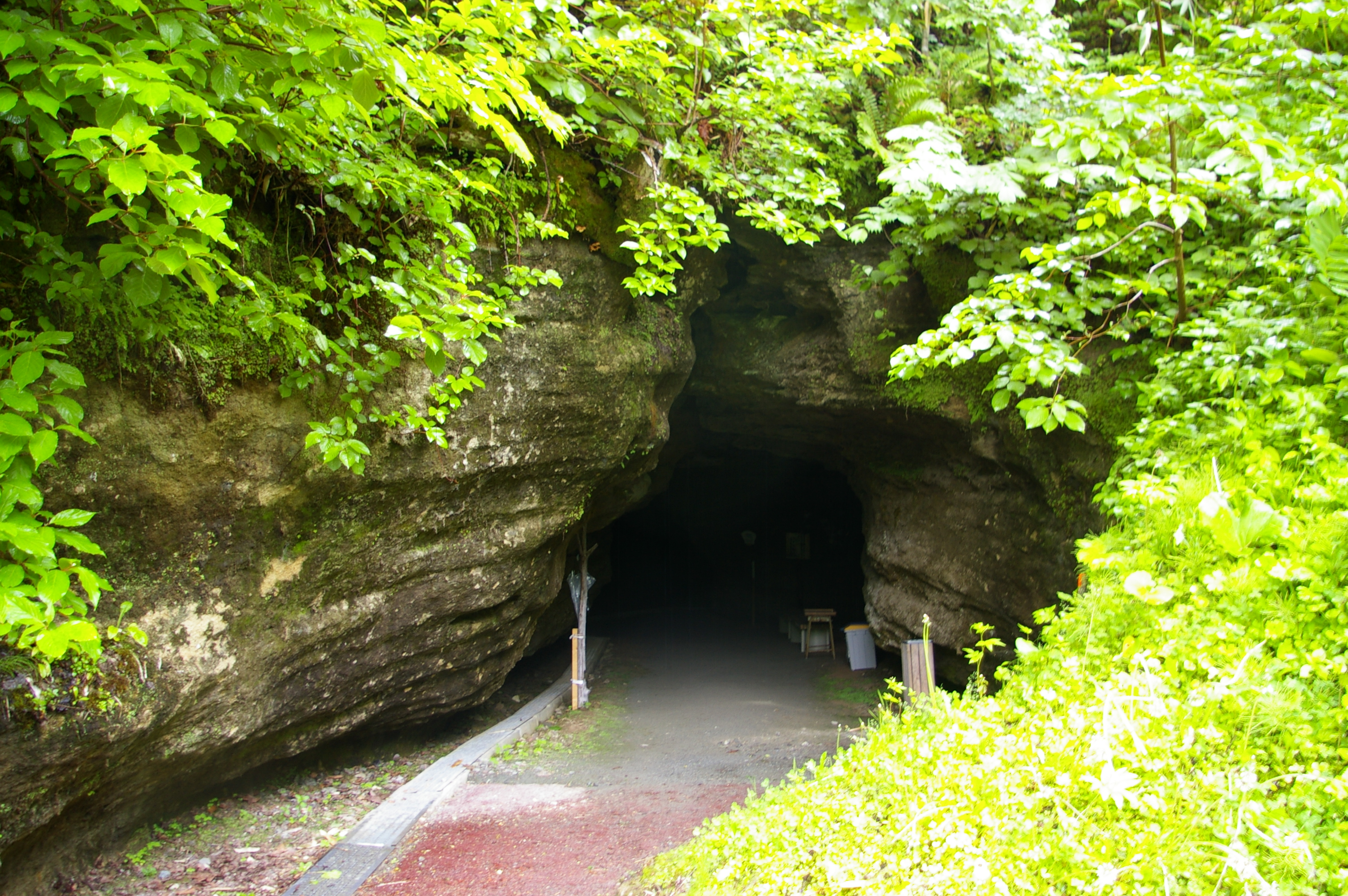 Entrance of Nakatonbetu-Shonyu-do Cave(Nakatombetsu, Hokkaido)